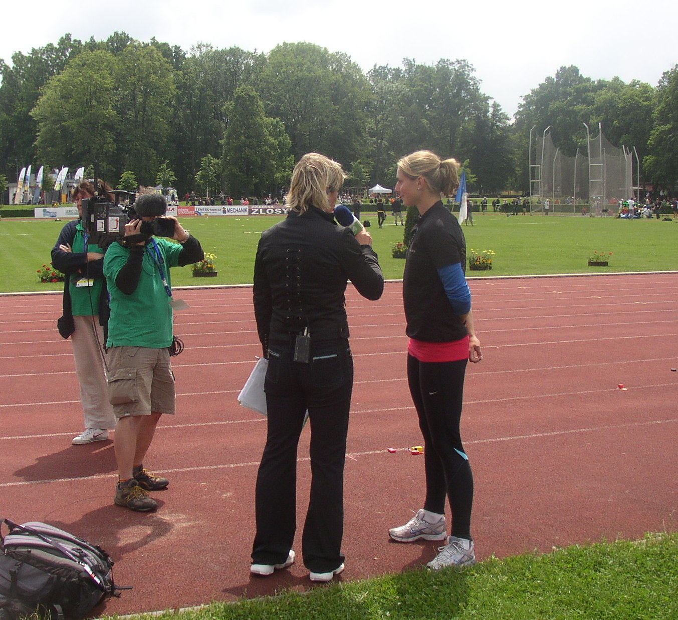 TV presenter of Čzech Television (and formerly a top Czech heptahlete) Kateřina Nekolná (with the microphone) making an interview with athlete Elišku Klučinovou (right) after long jump at 4th edition of the TNT - Fortuna Meeting (IAAF World Combined Events Challenge Meeting, Sletiště Stadium, Kladno, Czech Republic, 16 June 2010, 11:55).